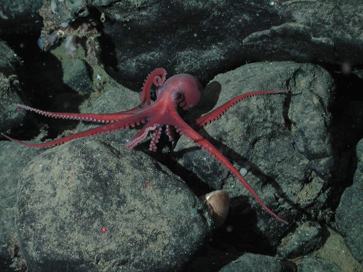 Benthic octopus (Benthoctopus sp.) and clam (Acesta mori) on the Davidson Seamount at 1461 meters depth.